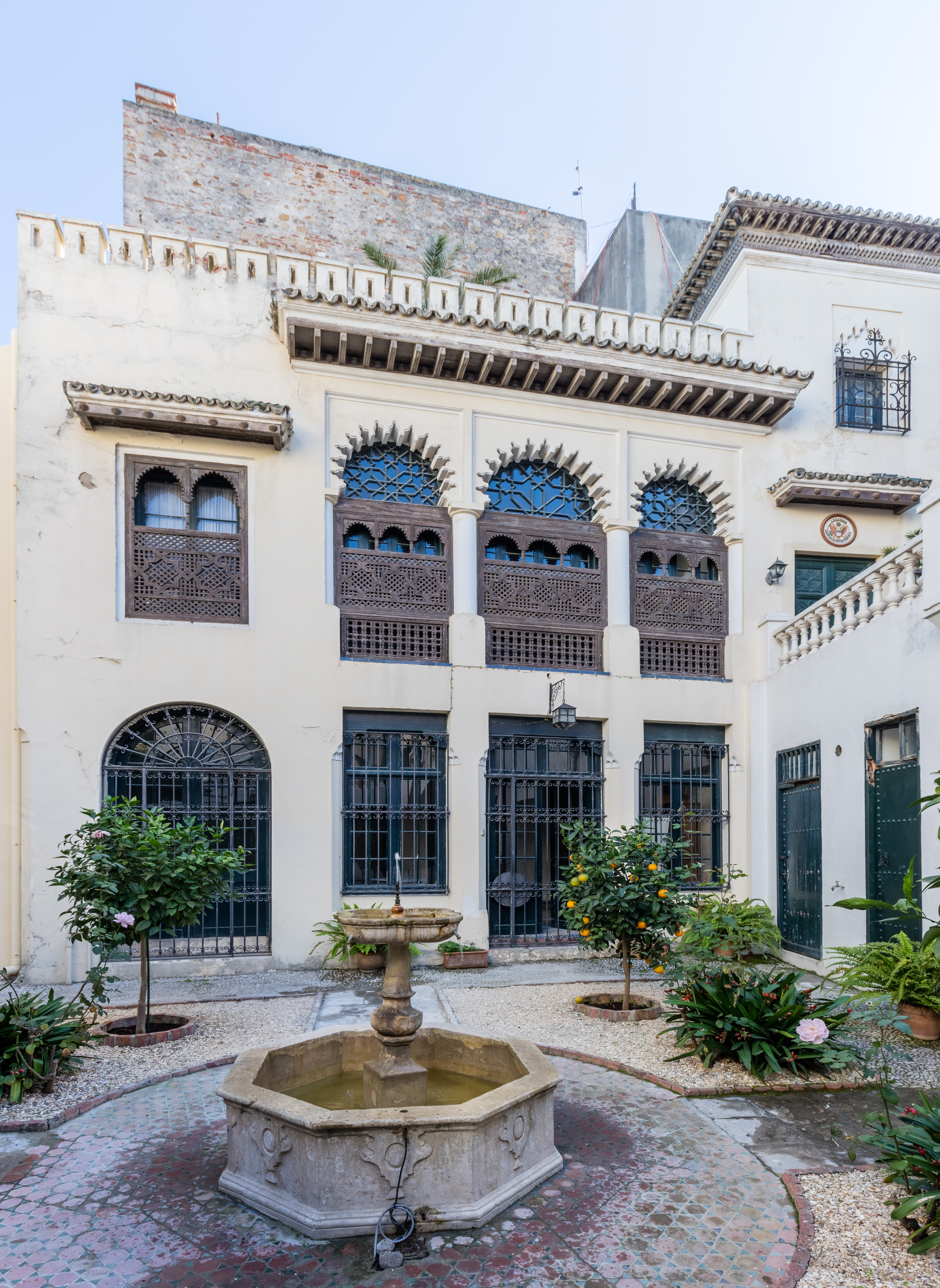 Old American Legation Museum, Tangier, Morocco